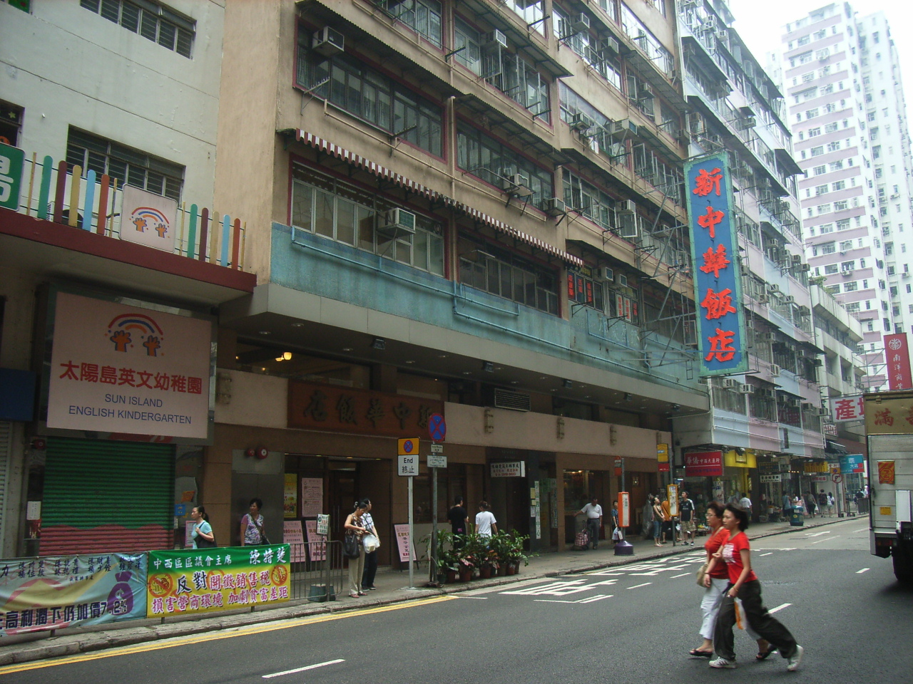 堅尼地城, 卑路乍街56, 新中華飯店, Belcher's Street, Kennedy Town, Hong Kong (by MAMA Ken David).